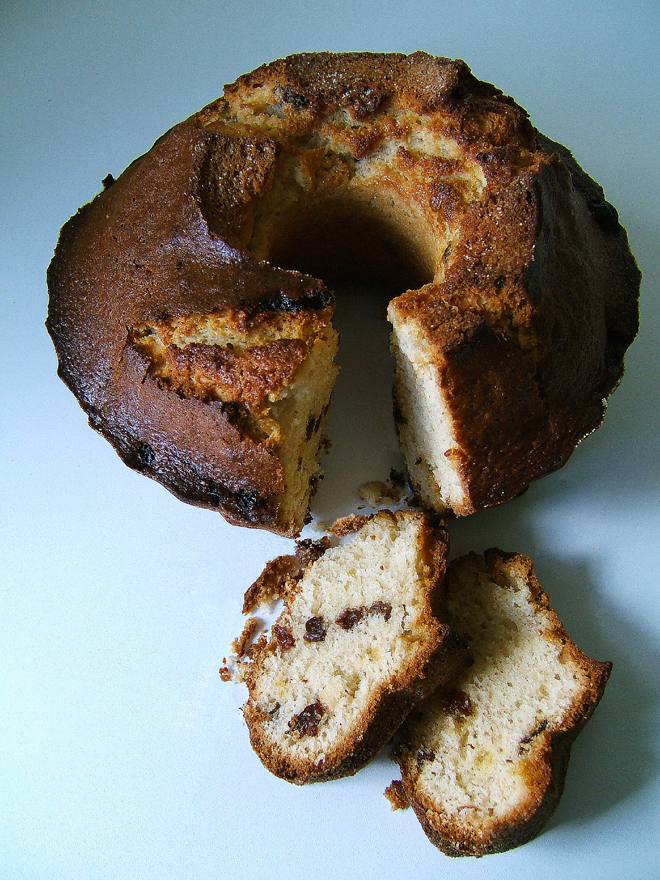 Hermann-Kuchen, a cake similar to Amish Friendship Bread